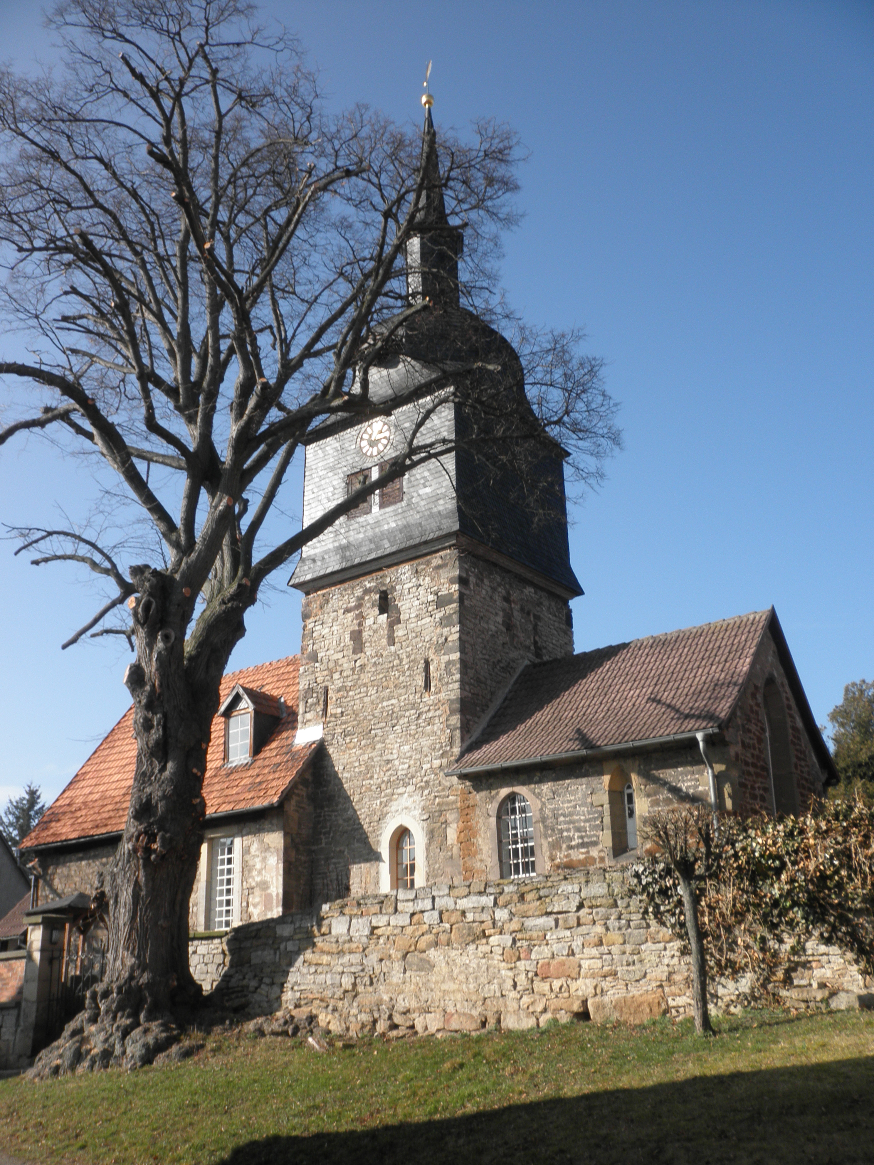 Church in Wülfershausen (Thüringen) in Thuringia